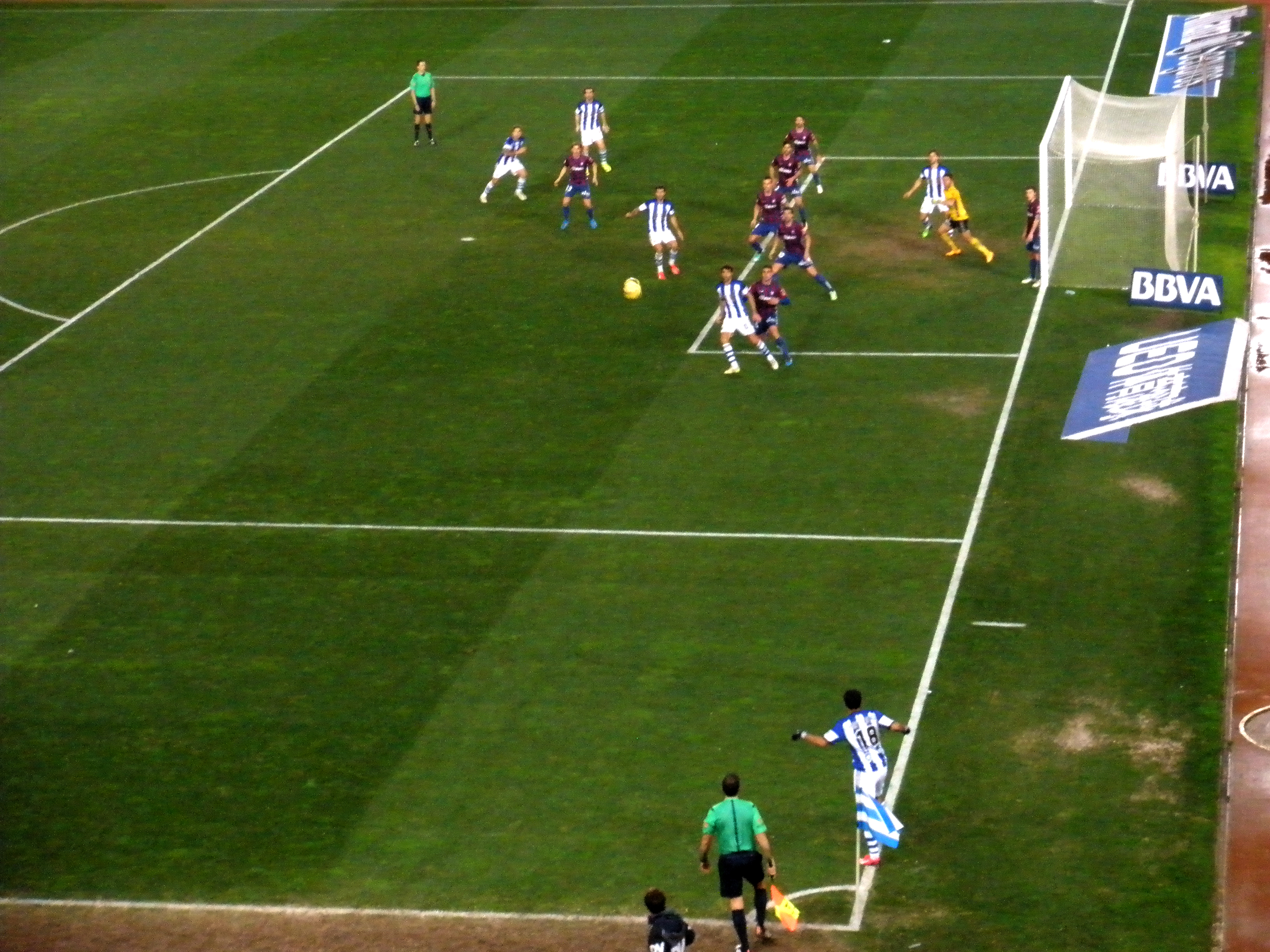 Gipuzkoarren arteko derbia (Erreala 1 - Eibar 0). 2015-1-24